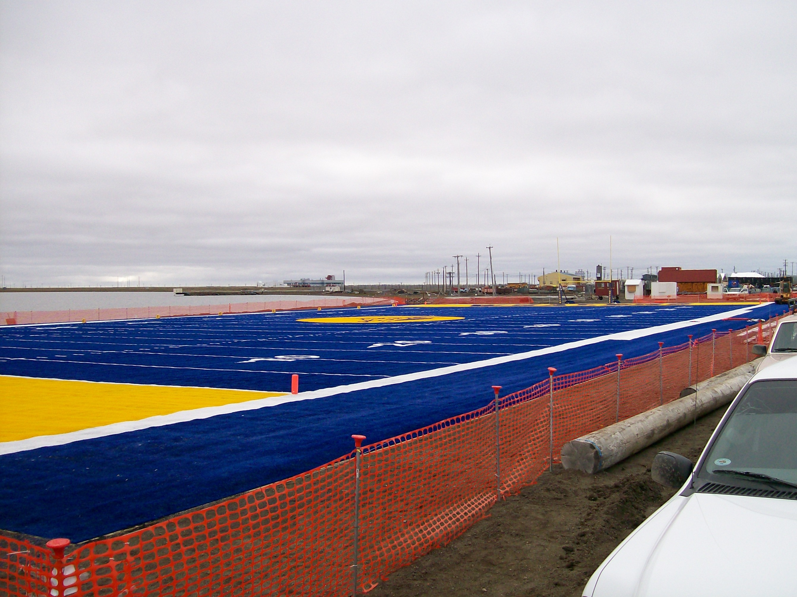 Artificial turf field of Barrow Whalers football team. The field was installed in Barrow, Alaska in August 2007. Photo by Dave Cohoe (2007).